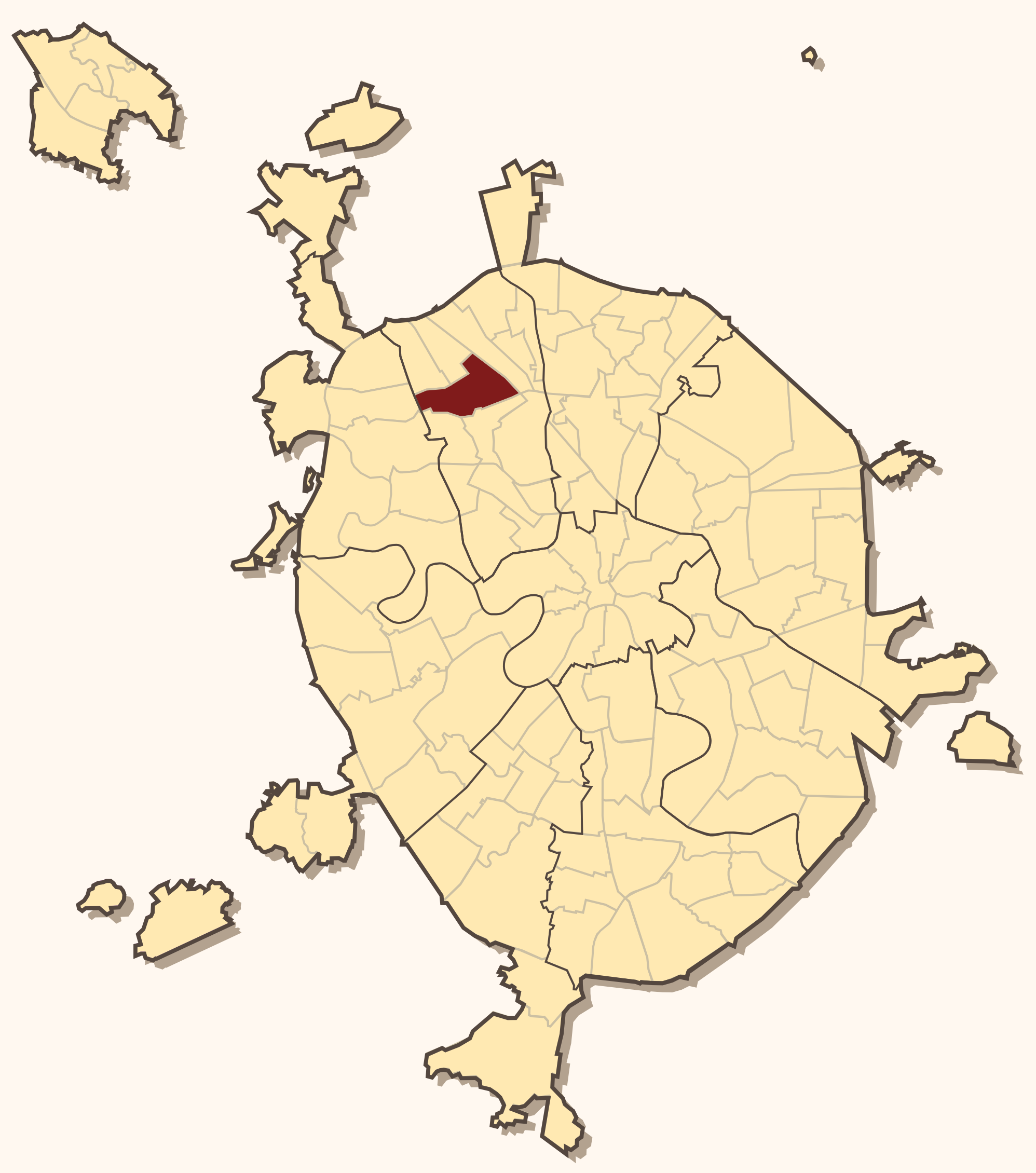 Moscow districts map